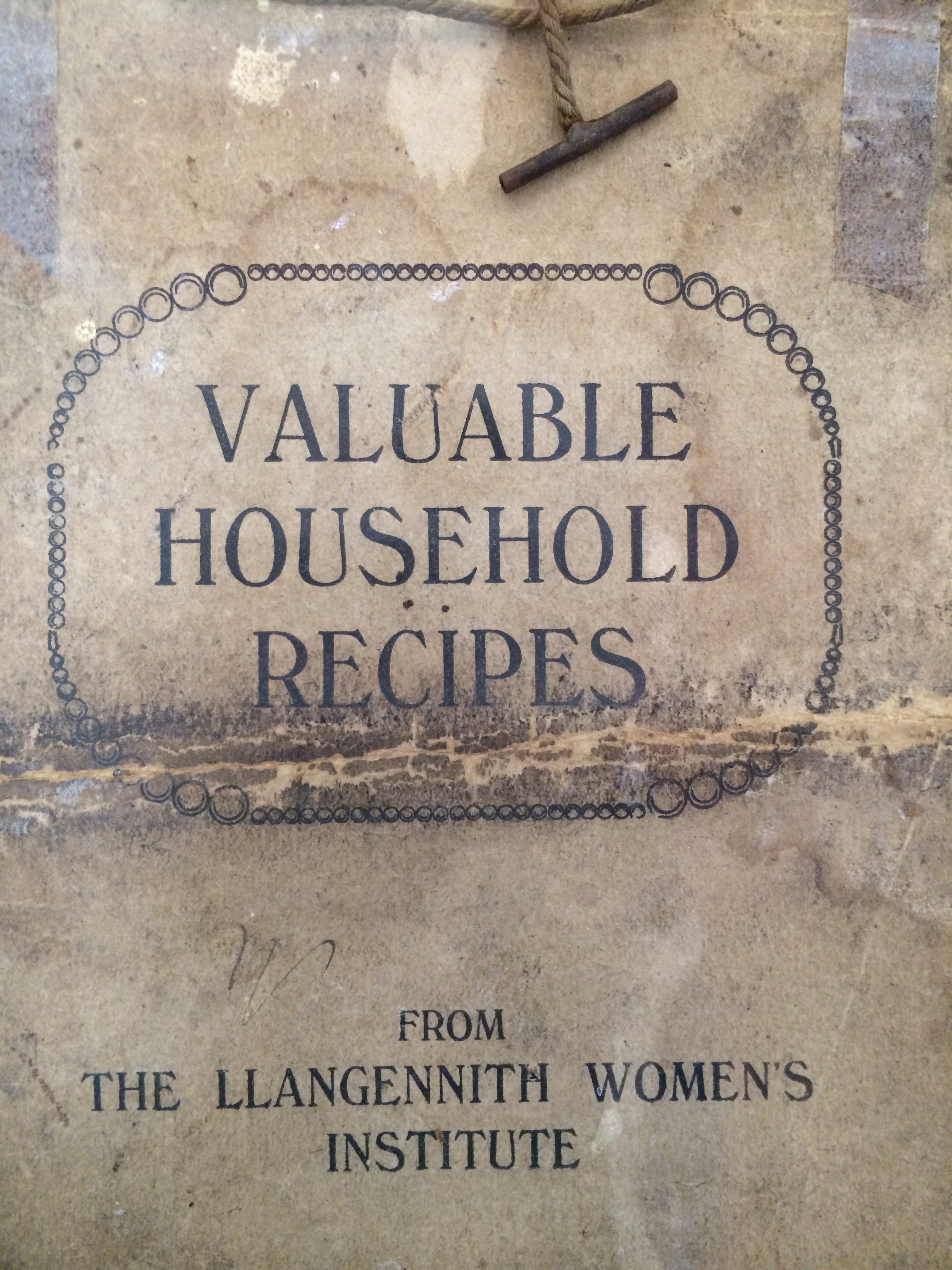 Recipe book of Llangennith Women's Institute, Gower, Wales